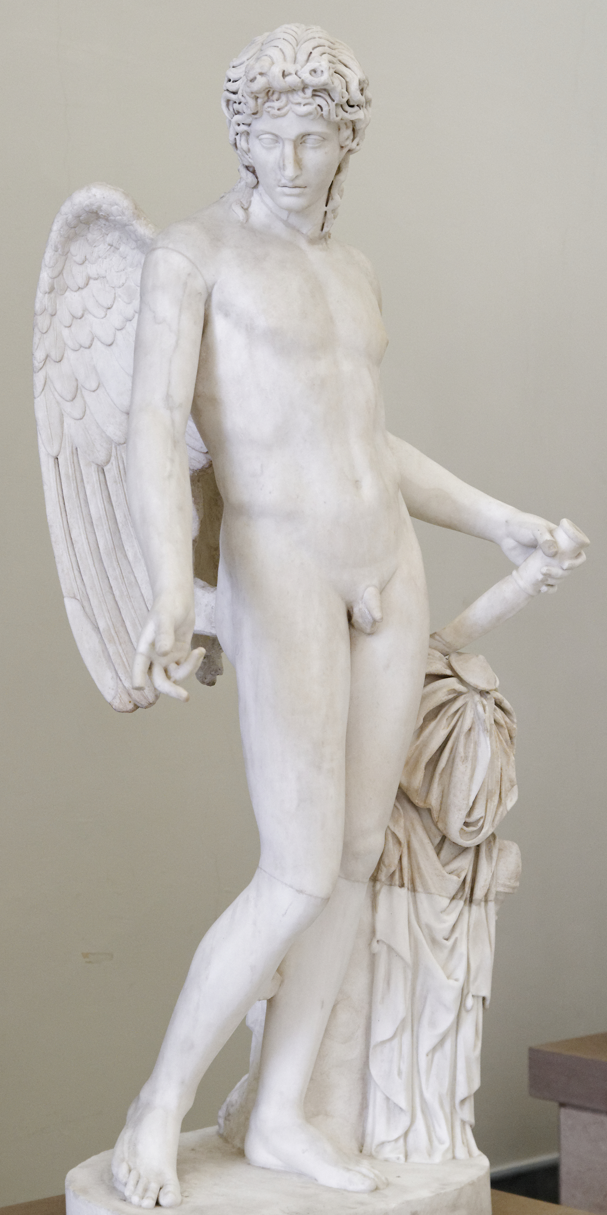 Statue of Eros of the type of Centocelle. Roman artwork of the 2nd century AD, probably a copy after a Greek original of the eclectic school.